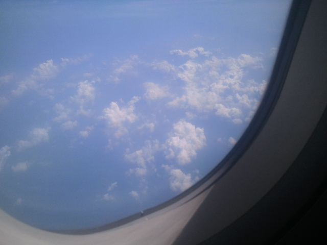 beyond the window in aircraft!